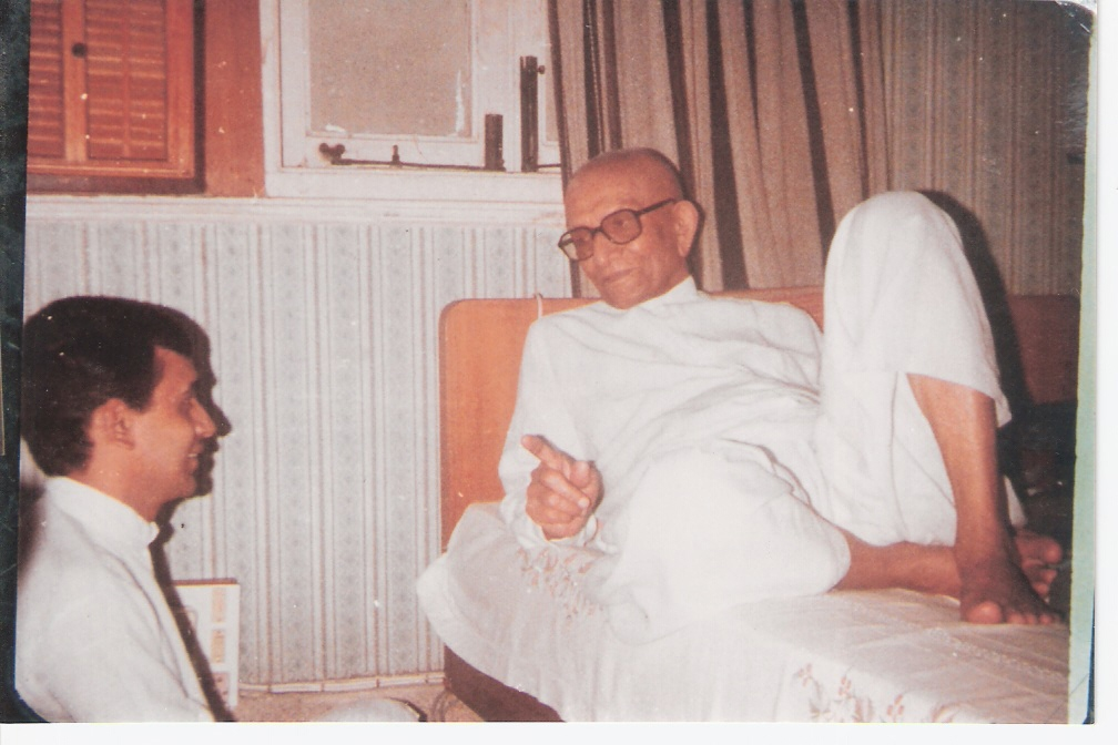 Kumar with Morarji Desai